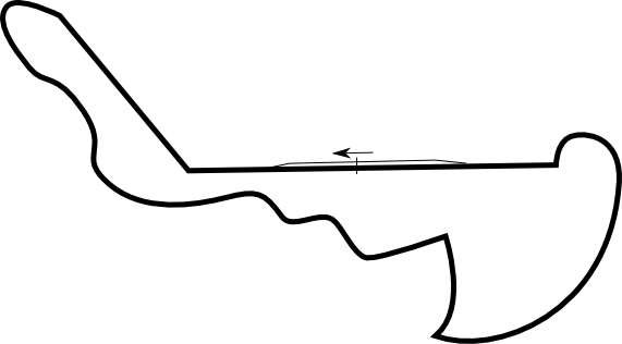 Layout of Centro Dinámico Pegaso in Toluca, México